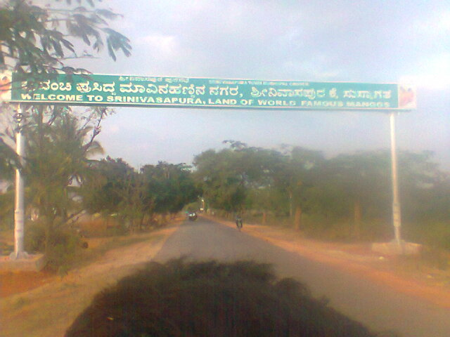 Welocme to srinivaspur "THE LAND OF WORLD FAMOUS MANGOES"